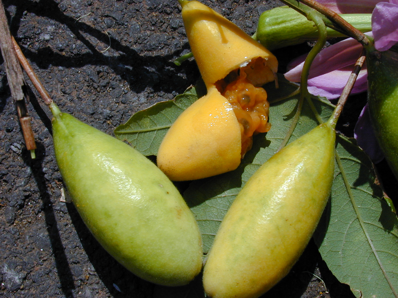 Passiflora tarminiana (fruit split open). Location: Maui, Kula